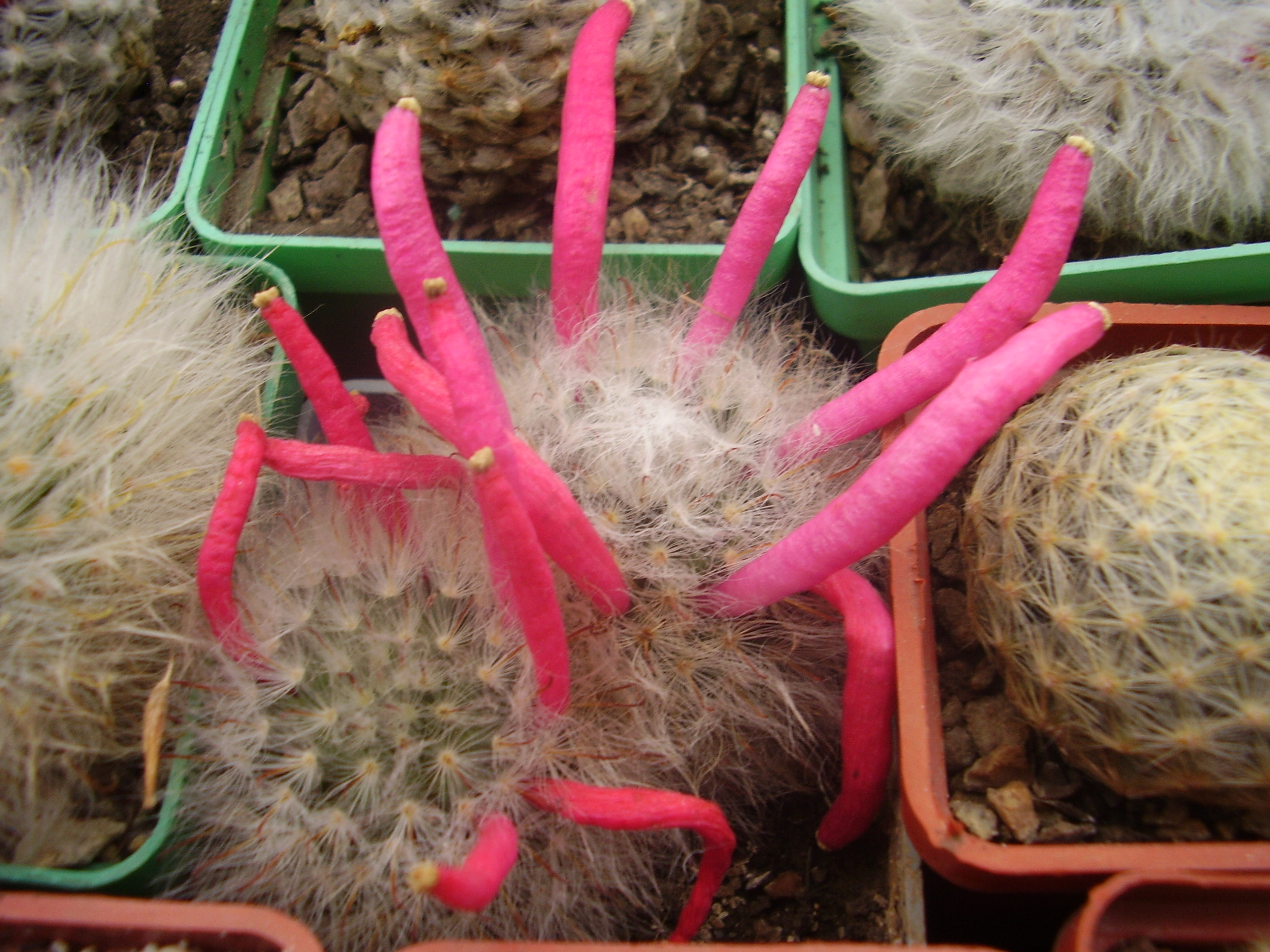 Fruits of Mammillaria bocasana